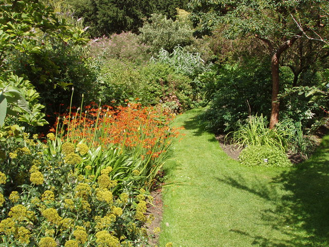 Crocosmia Aurea at Chelsea Physic Garden The orange flowers in the bed are montbretia - Crocosmia Aurea. It has various uses in traditional medicine in Africa, and is used for its colour like saffron.